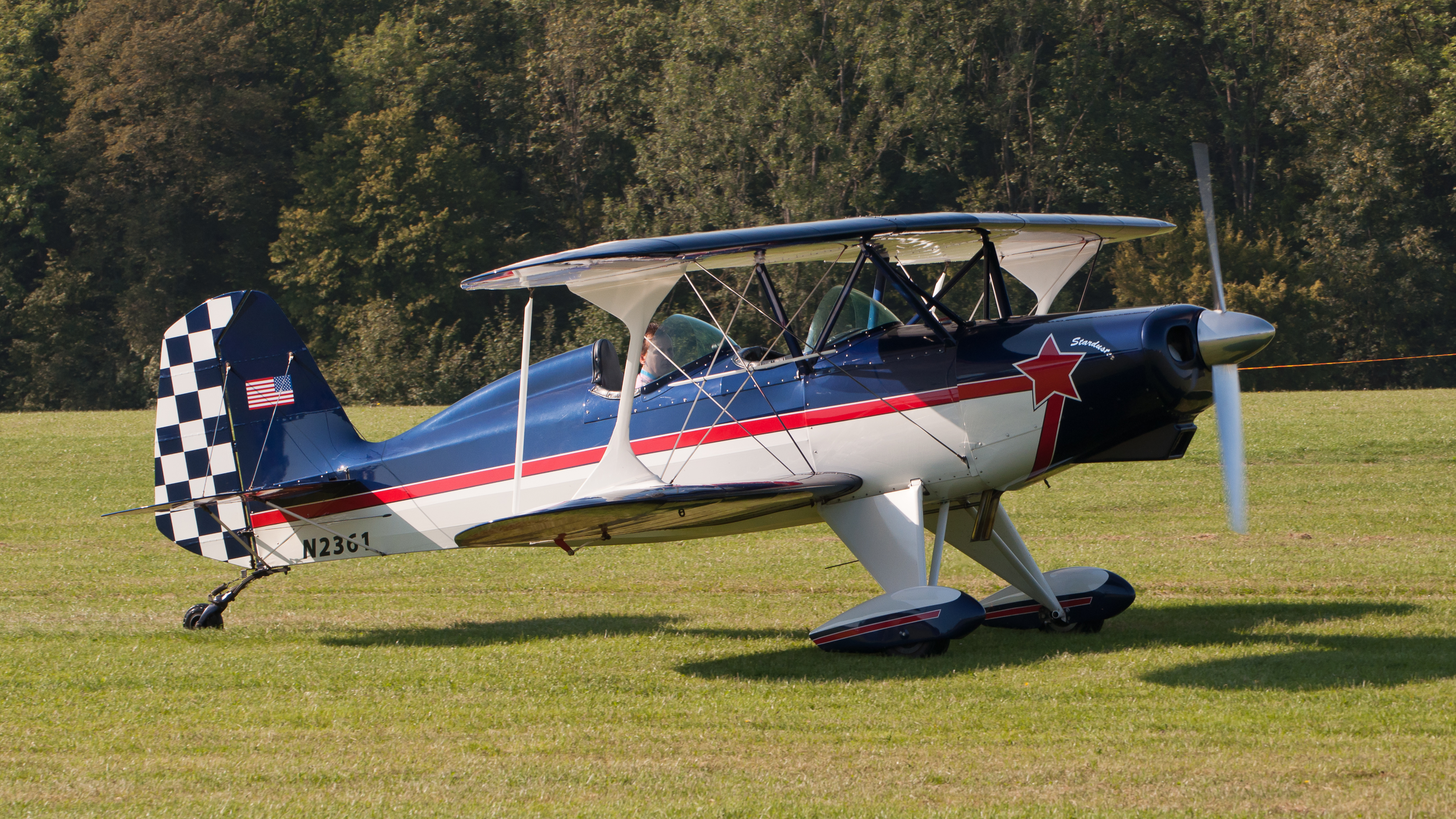 Stolp SA.300 Starduster Too (reg. N2361) with a Lycoming I0360 SER A&C engine.